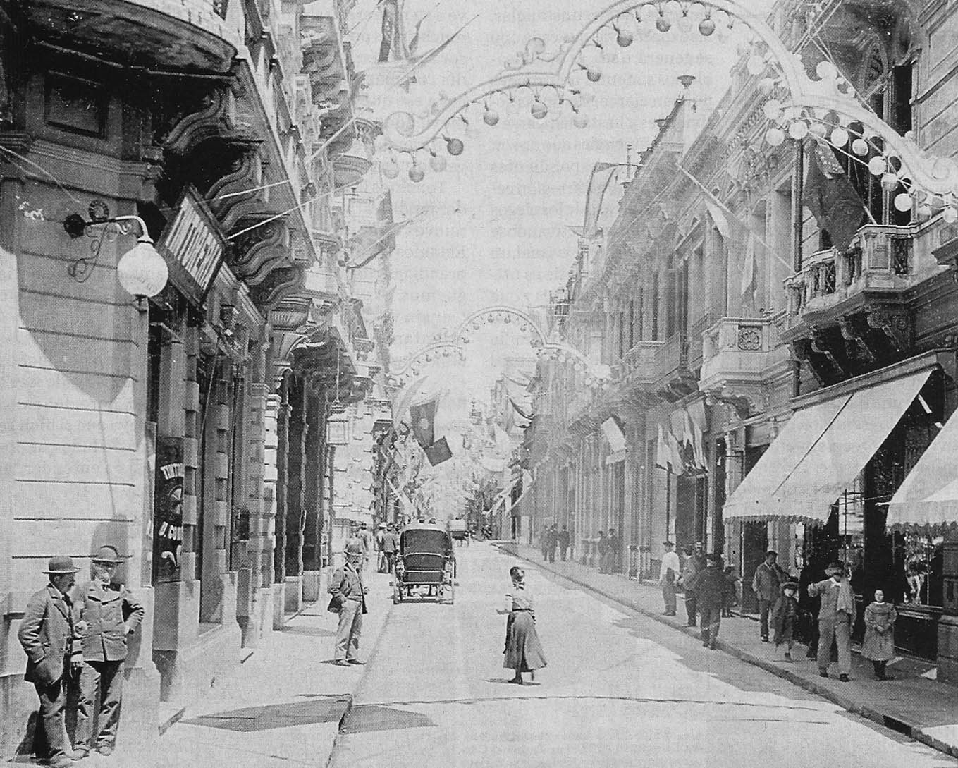 The Florida street of Buenos Aires with electric light lamps. It was part of the celebrations for the visit of president of Brazil, Manuel de Campos Salles, who arrived in Argentina that same year.